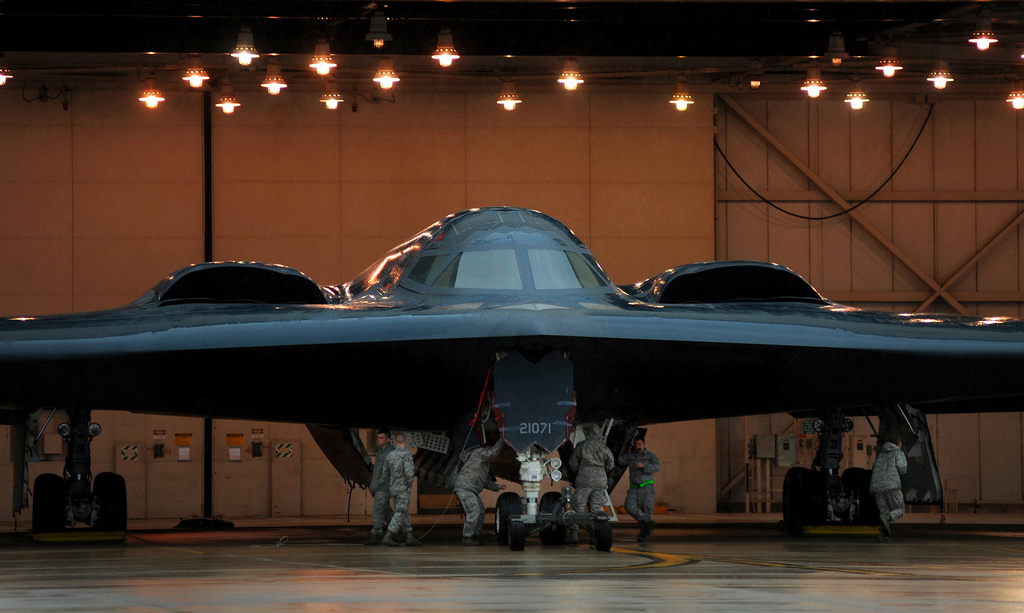 U.S. Air Force crew chiefs and other maintainers from the 509th Aircraft Maintenance Squadron prepare U.S. Air Force B-2 Spirit stealth bombers at Whiteman Air Force Base. Mo., March 19, 2011, for Operation Odyssey Dawn. (U.S. Air Force photo by Senior Airman Kenny Holston)